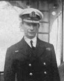 Cropped version of :Image:Roger Keyes 1915.jpg for use in article First Ostend Raid.